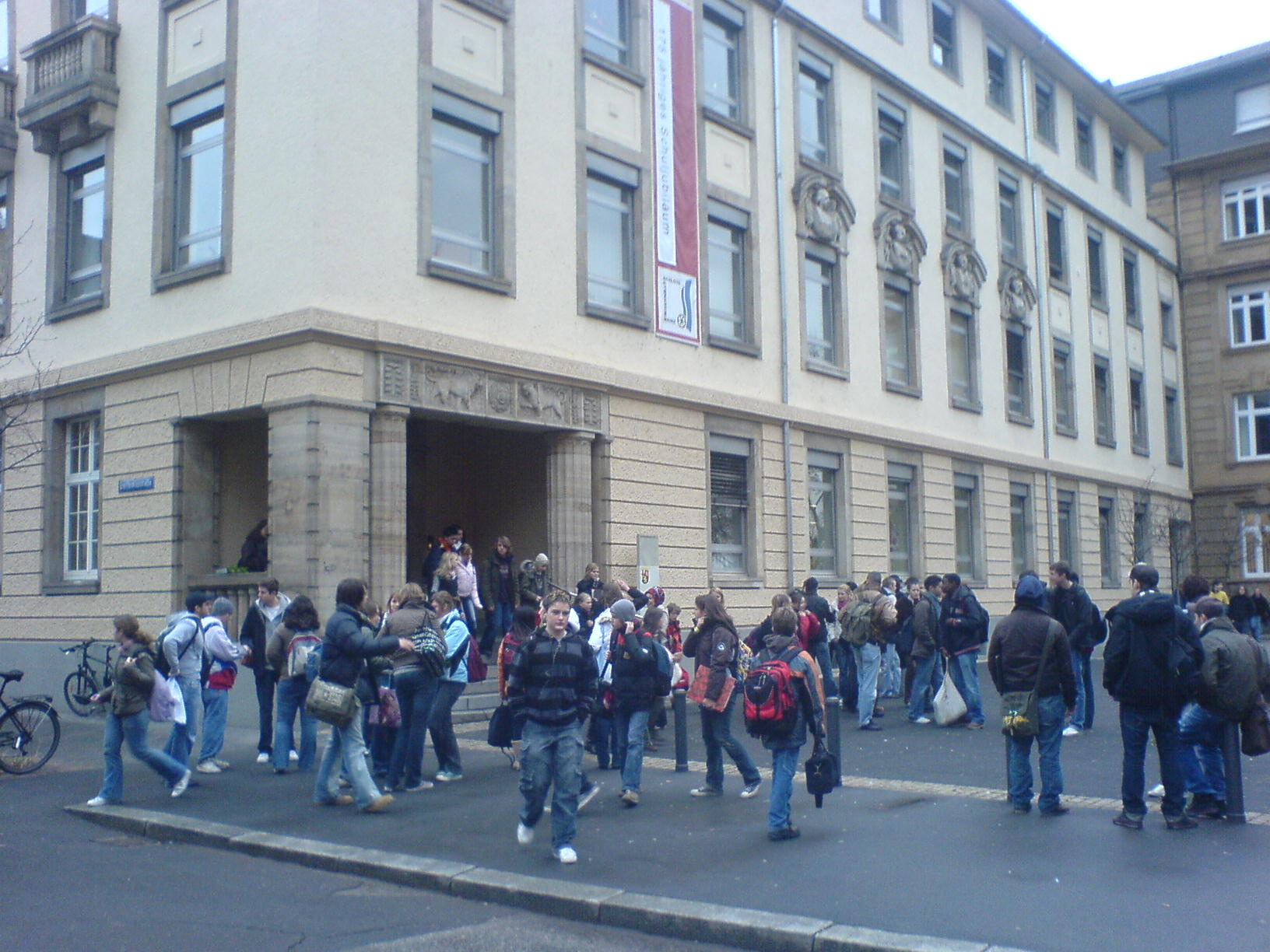 School yard